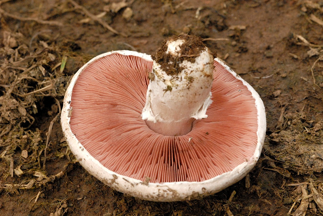 Agaricus campestris from Commanster, Belgium. The determination of the species shown in this picture has been verified.